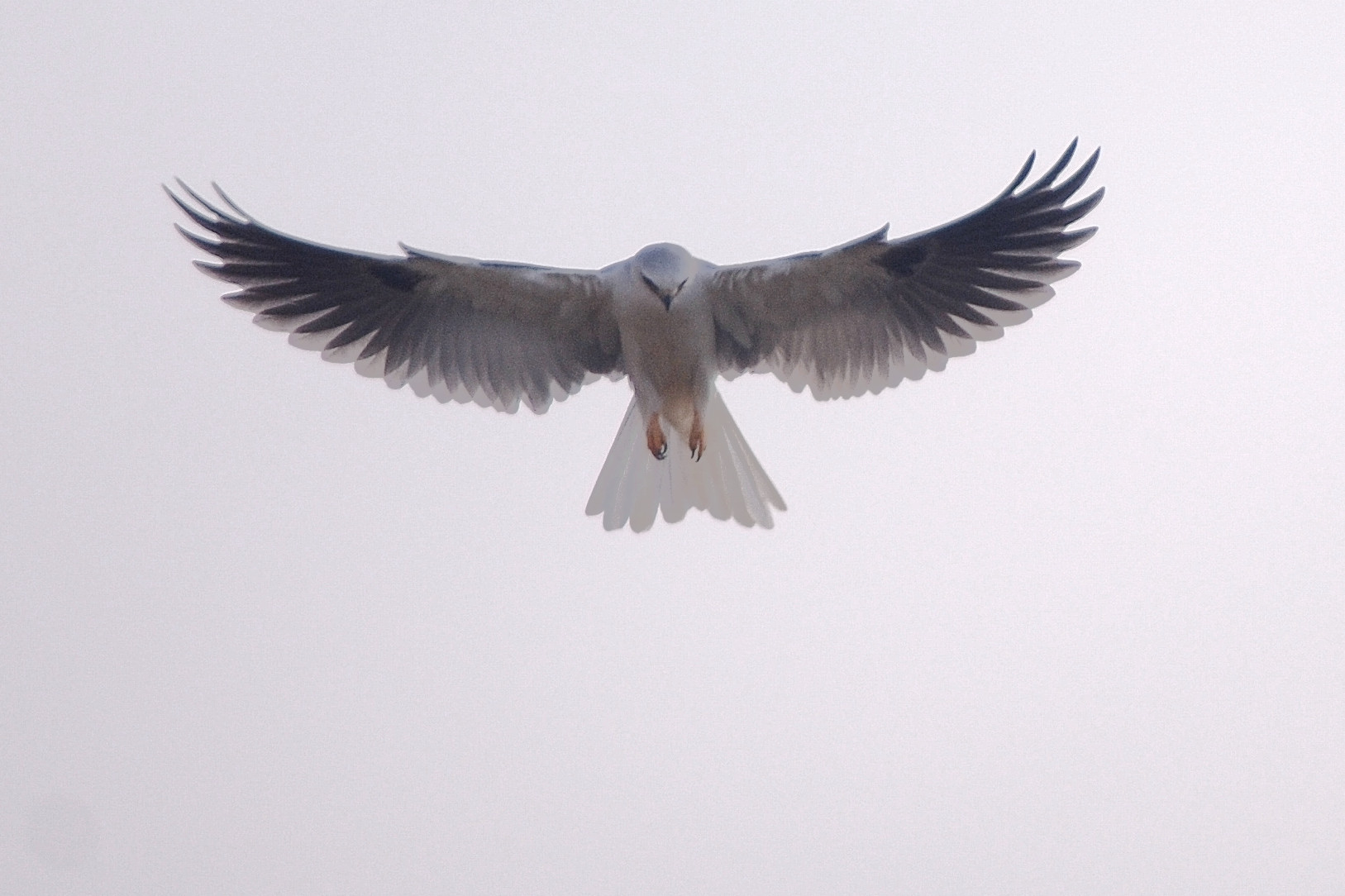 Mike Vos Photography